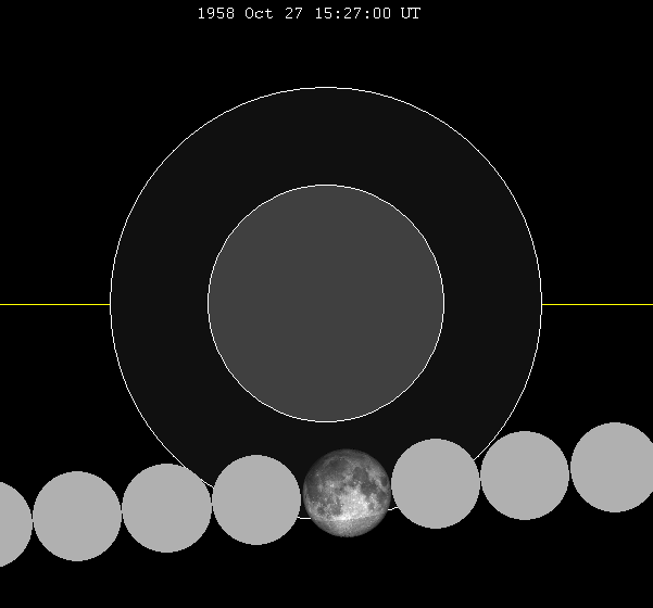 October 1958 lunar eclipse chart of moon's path through the earth's shadow. thumb